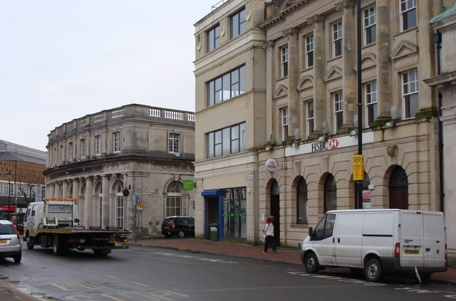 Neath Jobcentre and HSBC Bank. You can also see Summerfield Road as it joins Windsor Road.